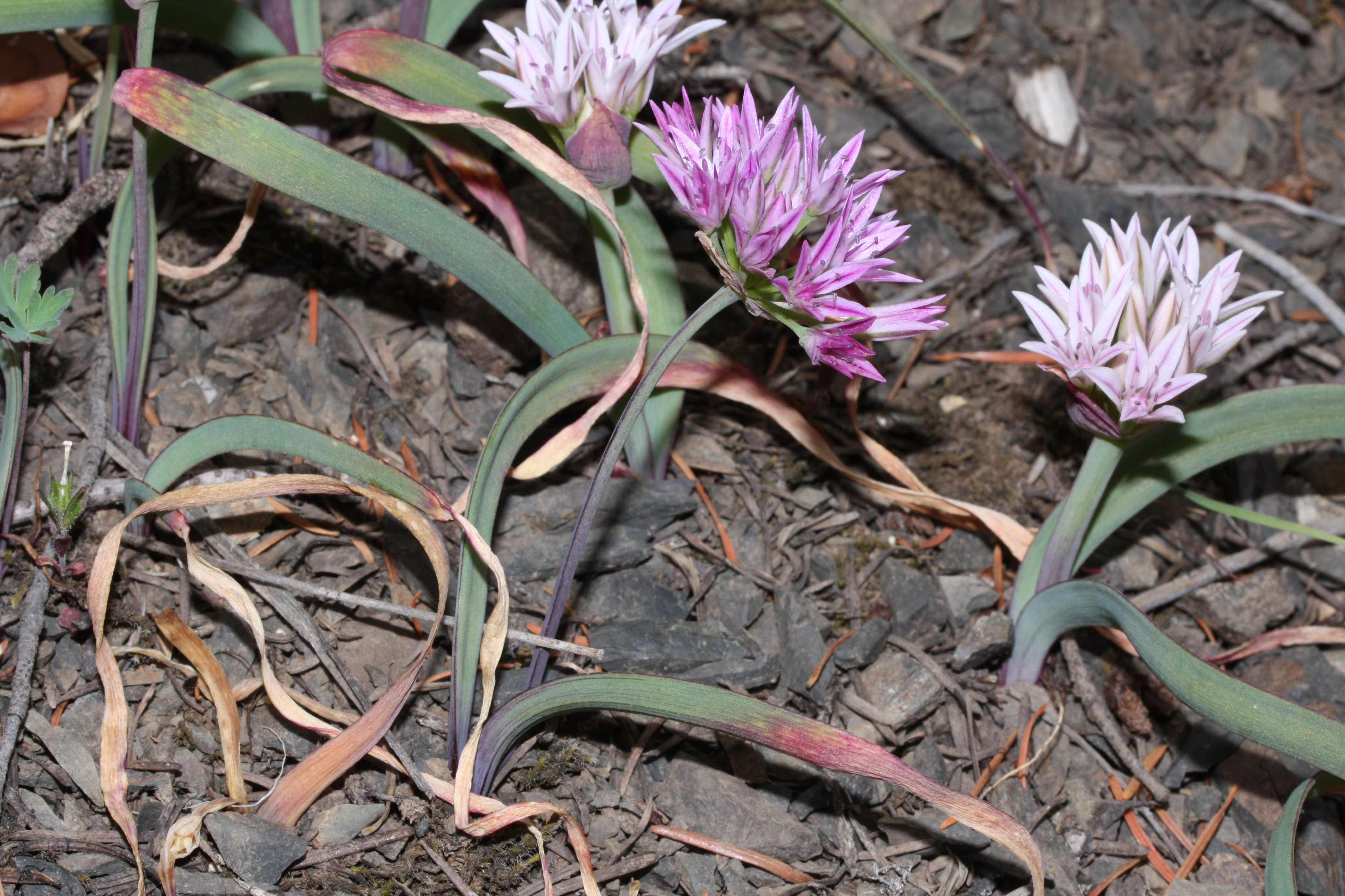 Olympic Onion, Scalloped Onion